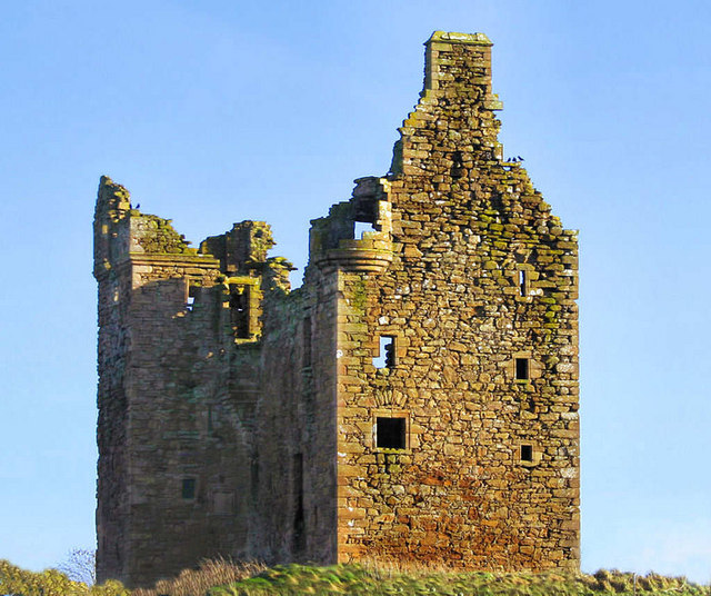 Baltersan Castle Ruins of this Castle situated near Maybole Ayrshire.